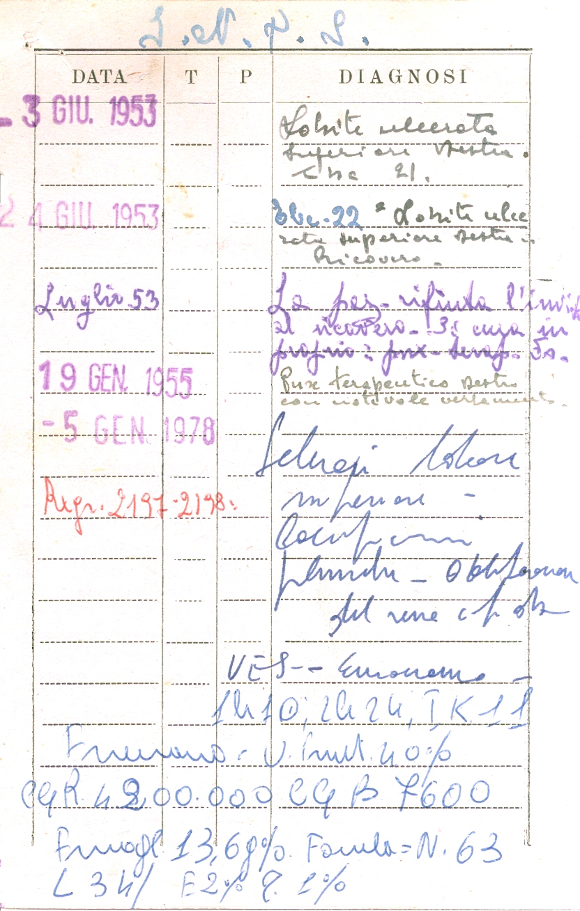 diagnosi